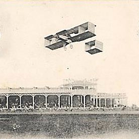 French aviatrix Raymonde de Laroche in flight in her Voisin biplane at Reims air show.